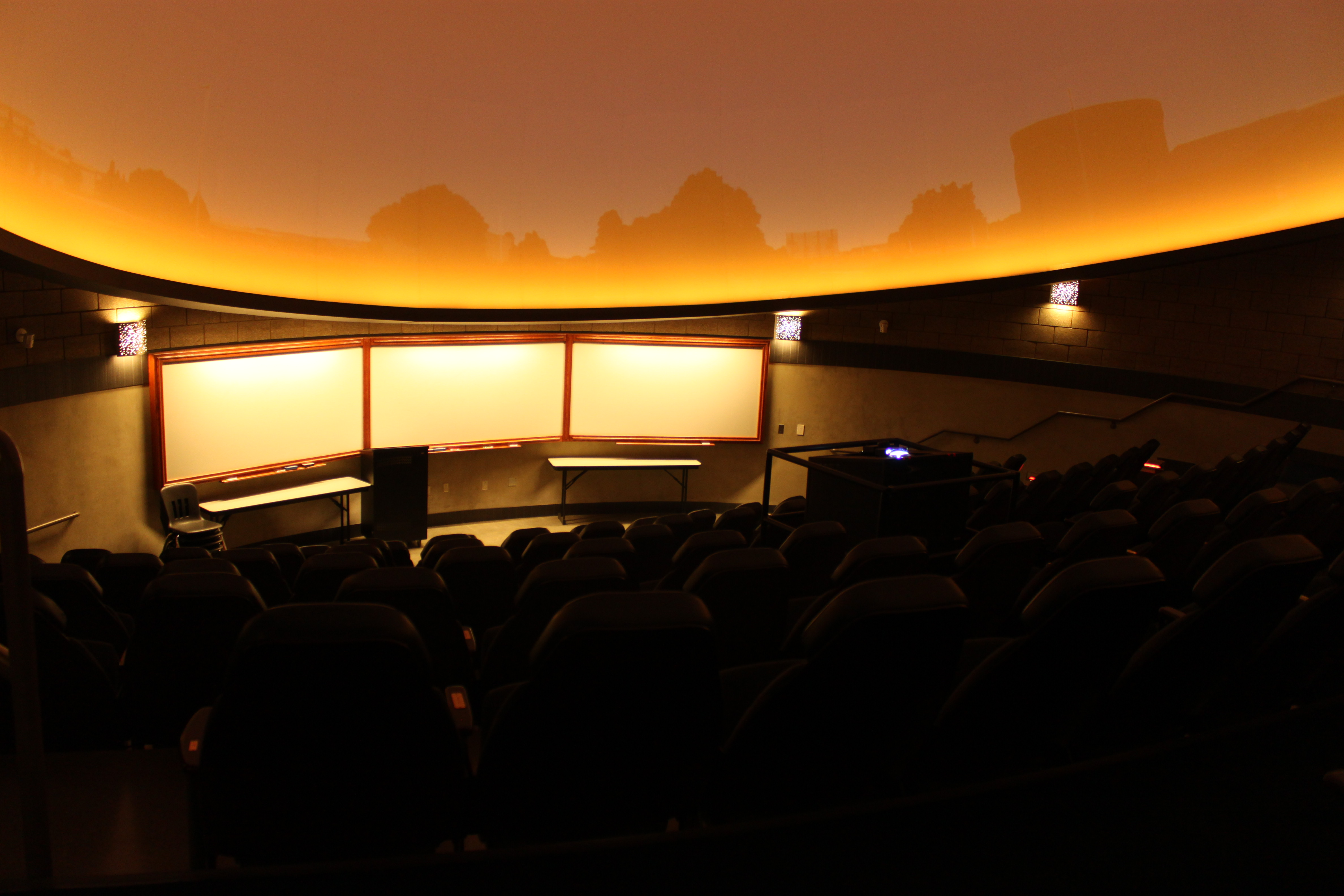 Photocredit to Emily Byers